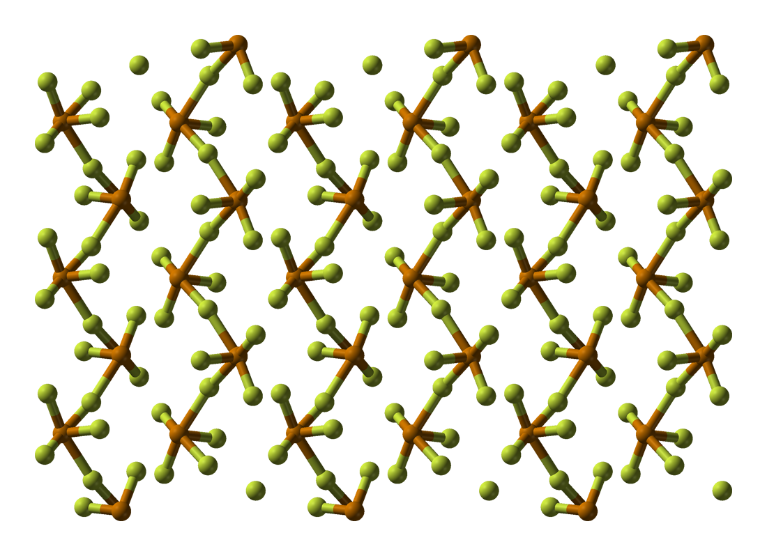 Ball-and-stick model of part of the crystal structure of tellurium tetrafluoride, TeF4. X-ray crystallographic data from Angew. Chem. (1984) 96, 351-352. Model constructed in CrystalMaker 8.1. Image generated in Accelrys DS Visualizer.